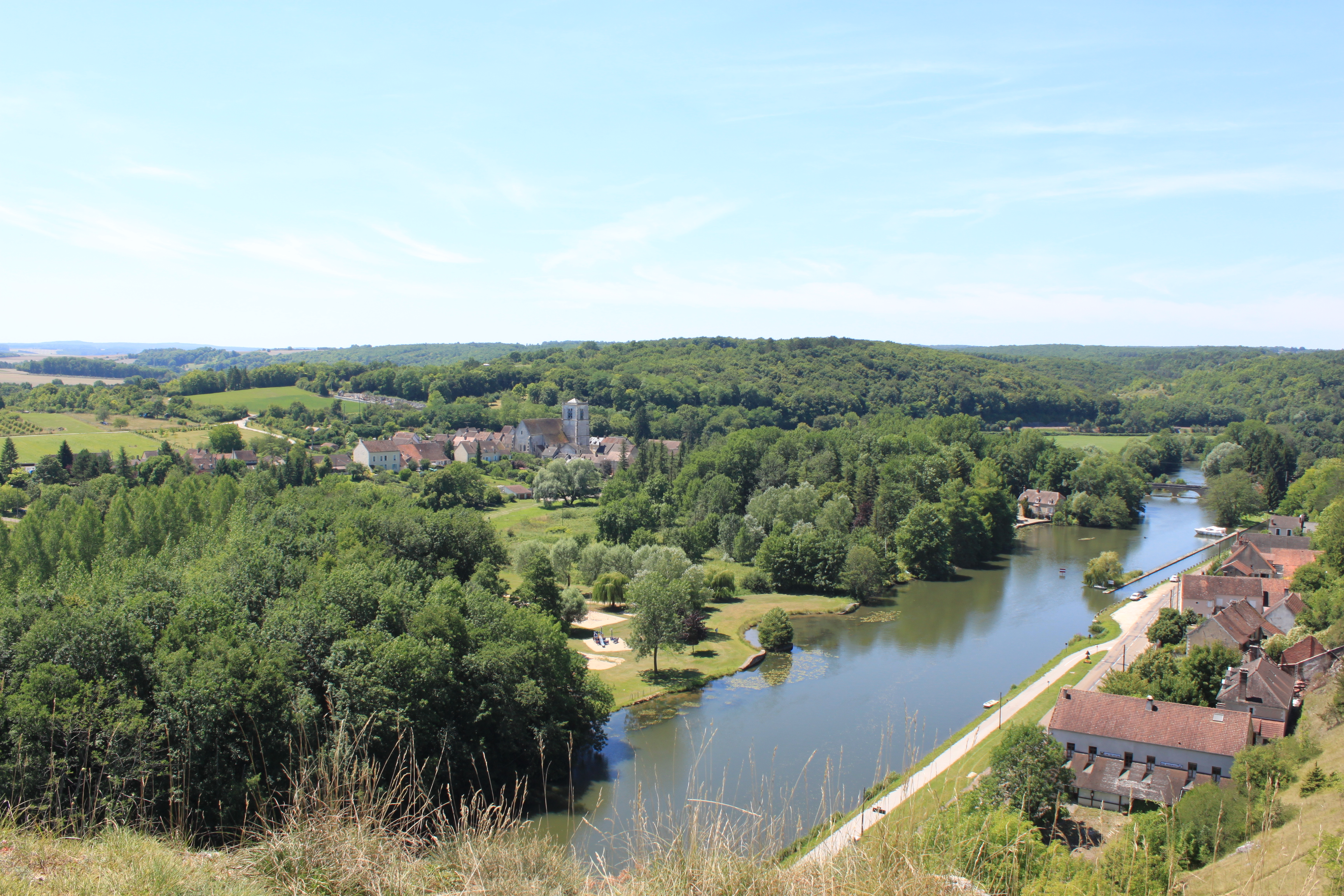 Merry-sur-Yonne, Yonne departement, Burgundy, France. View from the N-E, from the top of the cliffs called "rochers du Saussois", famous in the rock climbing world.